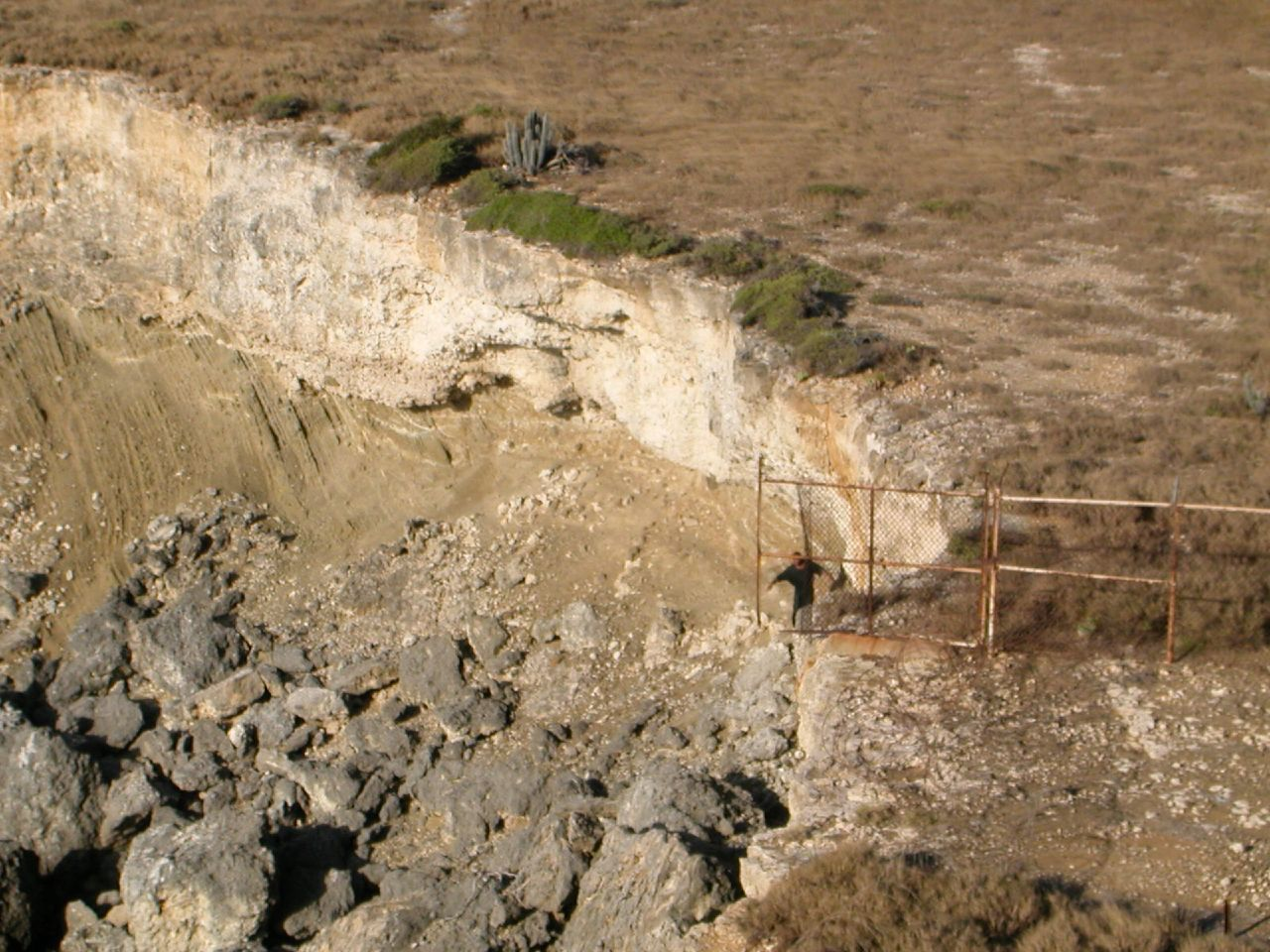 In this picture he's still on Cuban soil, and we're motioning to him to get to our side so we can protect them, once on our side, we have to protect them with our lives, but if the cuban frontier brigade get them on their side, there's nothing we can do. Sad!!